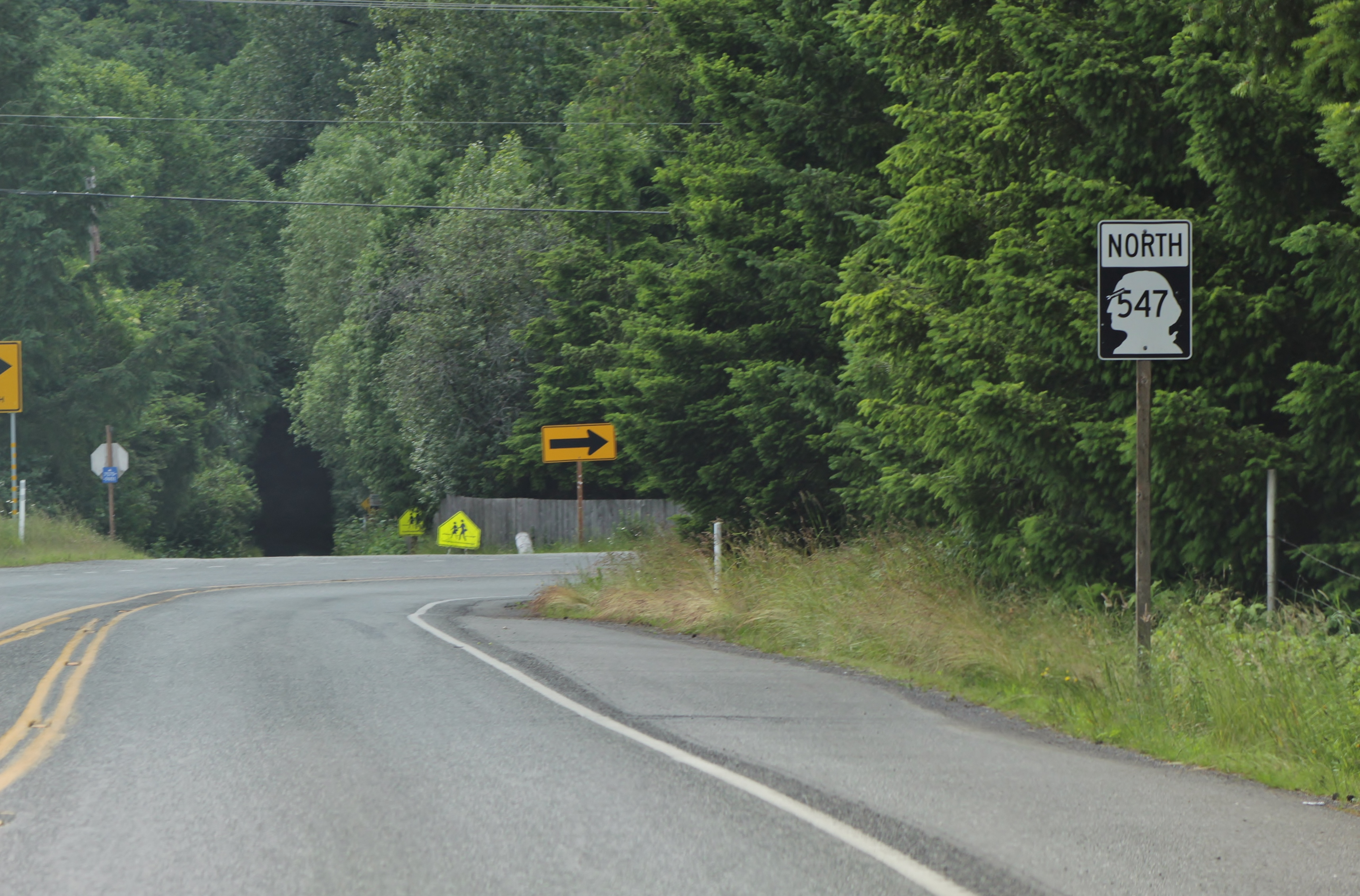 Looking northbound (cardinal west) on State Route 547 near its terminus with State Route 542 in Kendall, Washington.